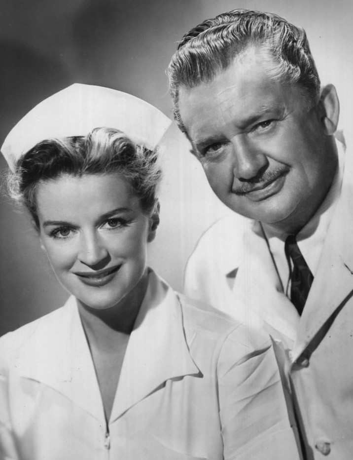 Photo of Rosemary DeCamp as nurse Judy Price and Jean Hersholt as Doctor Christian from the radio program Dr. Christian.